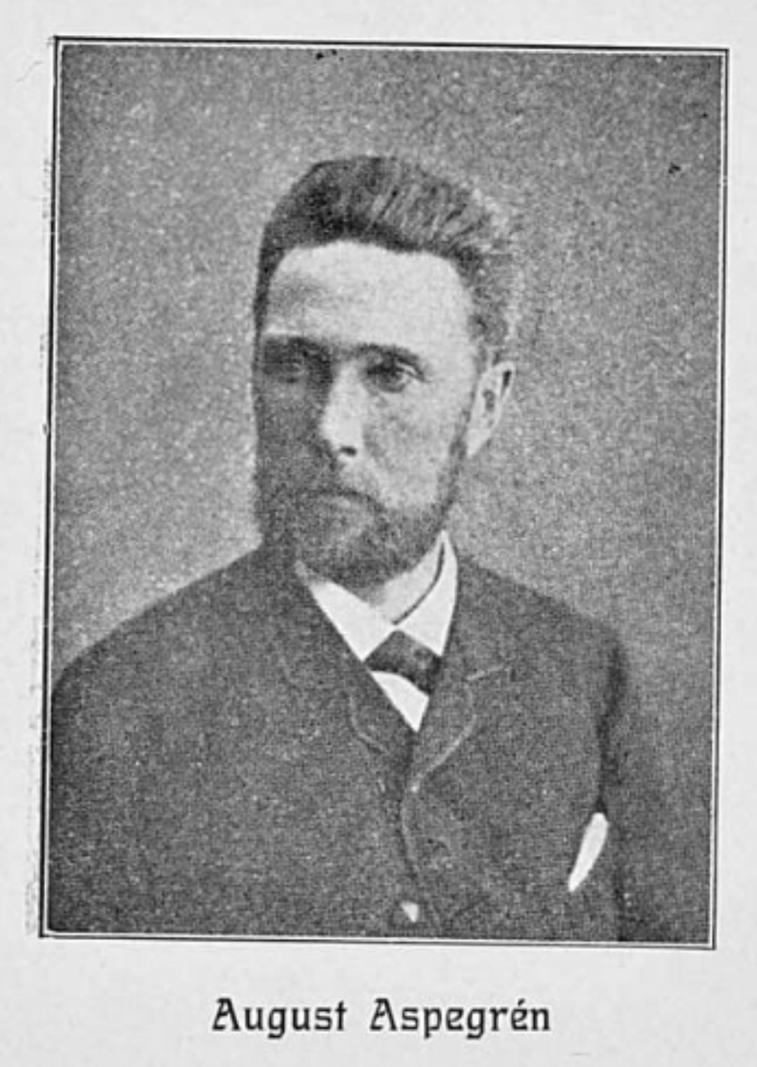 The Finnish actor August Aspegren (1846-1912)